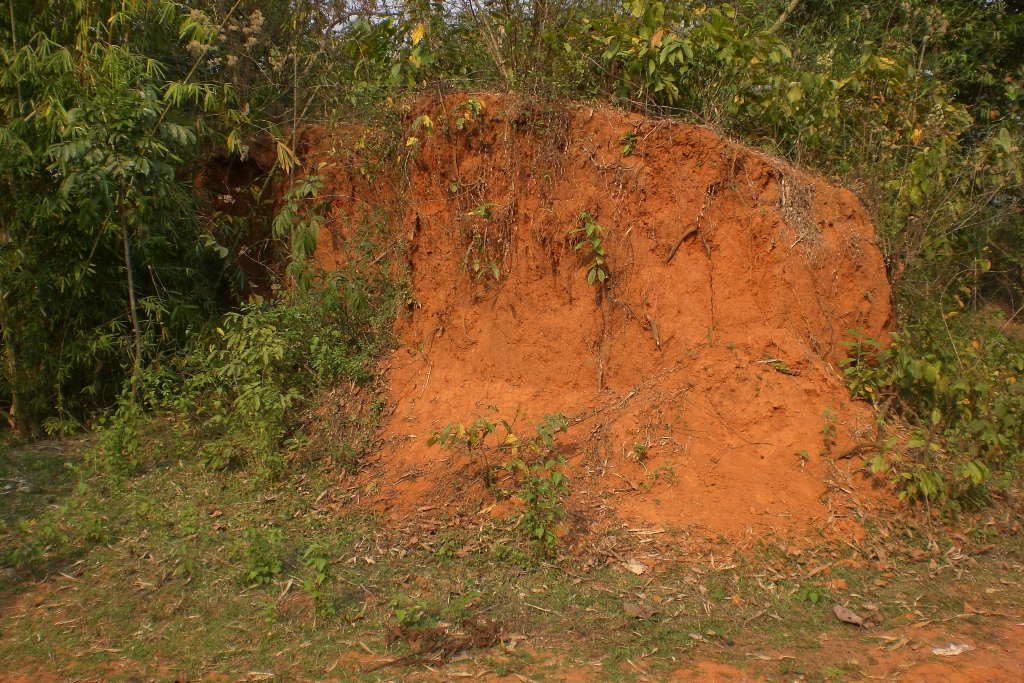 A part of the boundary wall of the ancient fort city. Photograph taken by Shehab.